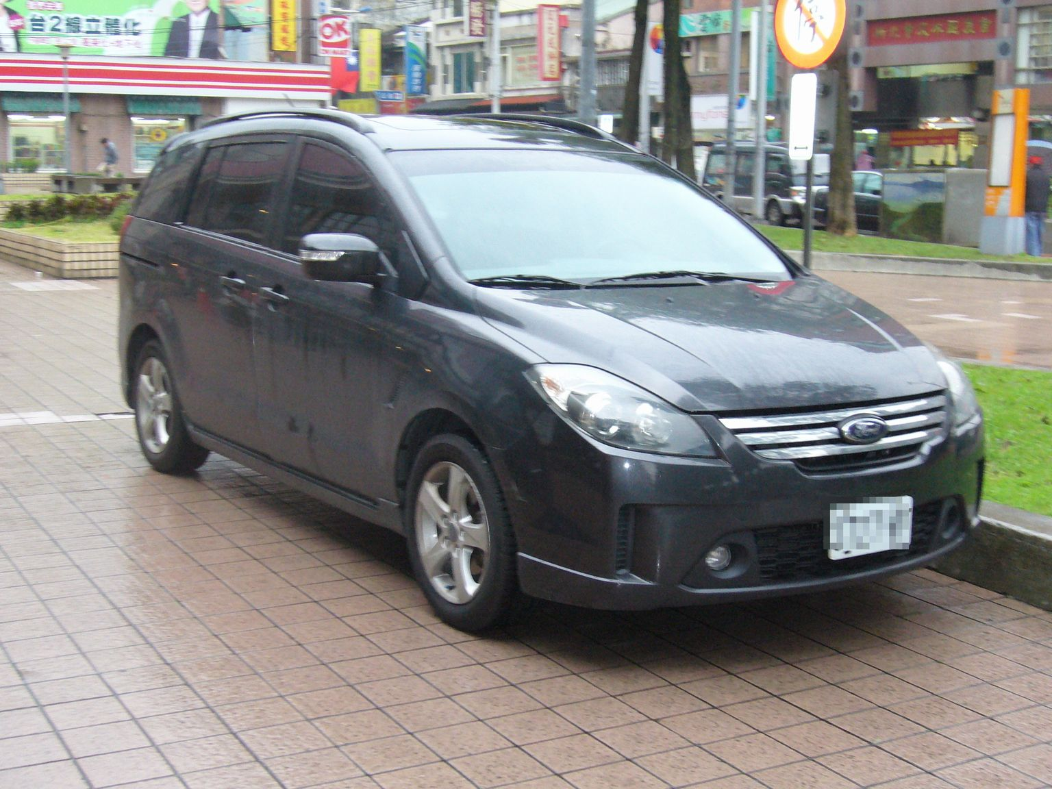 Ford i-max